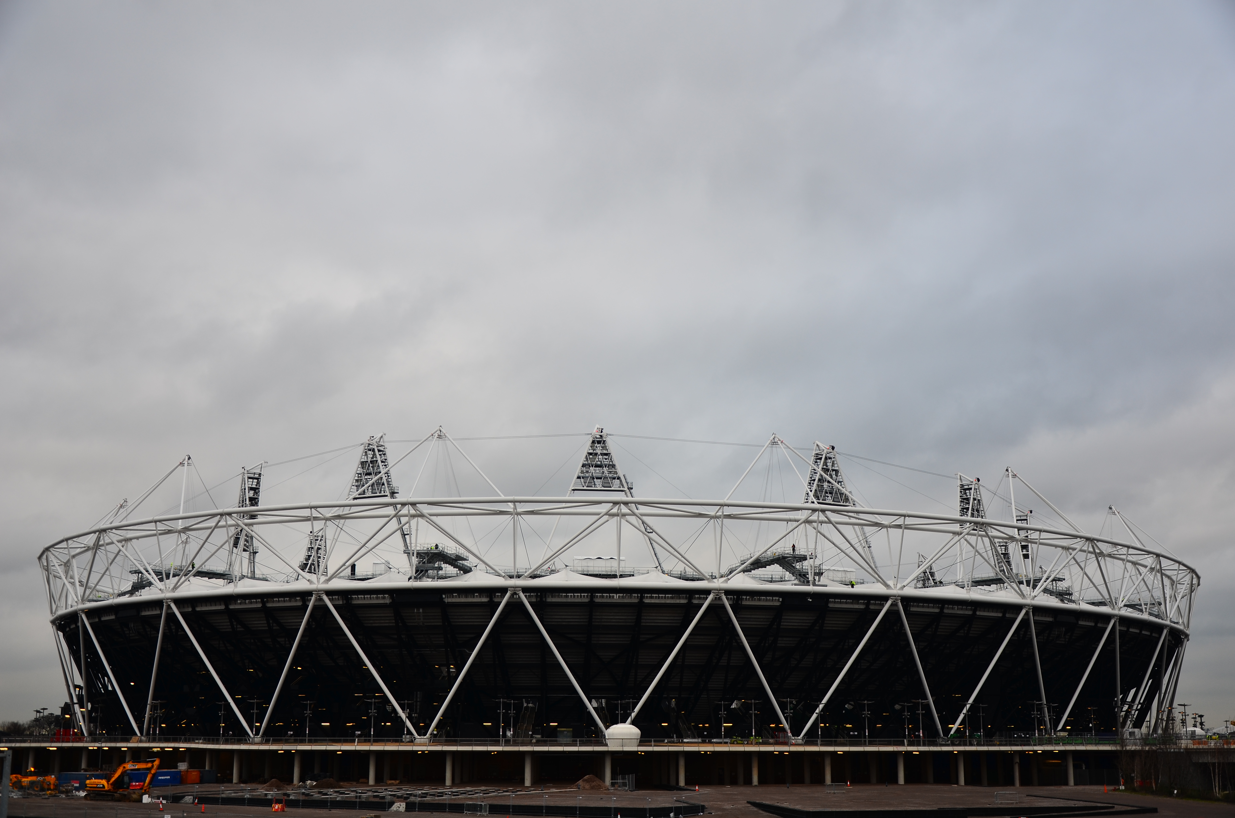 The Olympic Stadium in January in 2012.